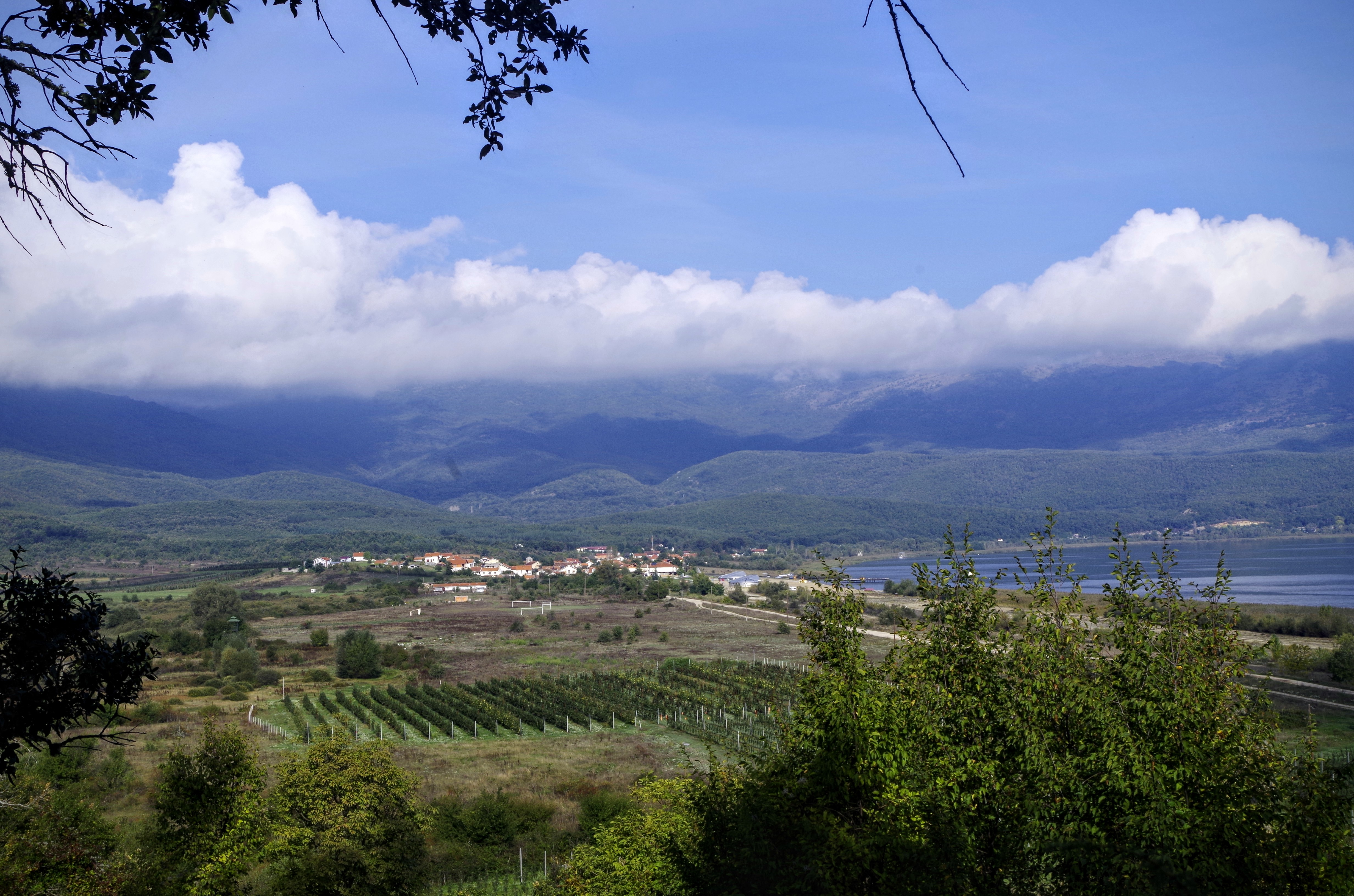 View of the village Stenje